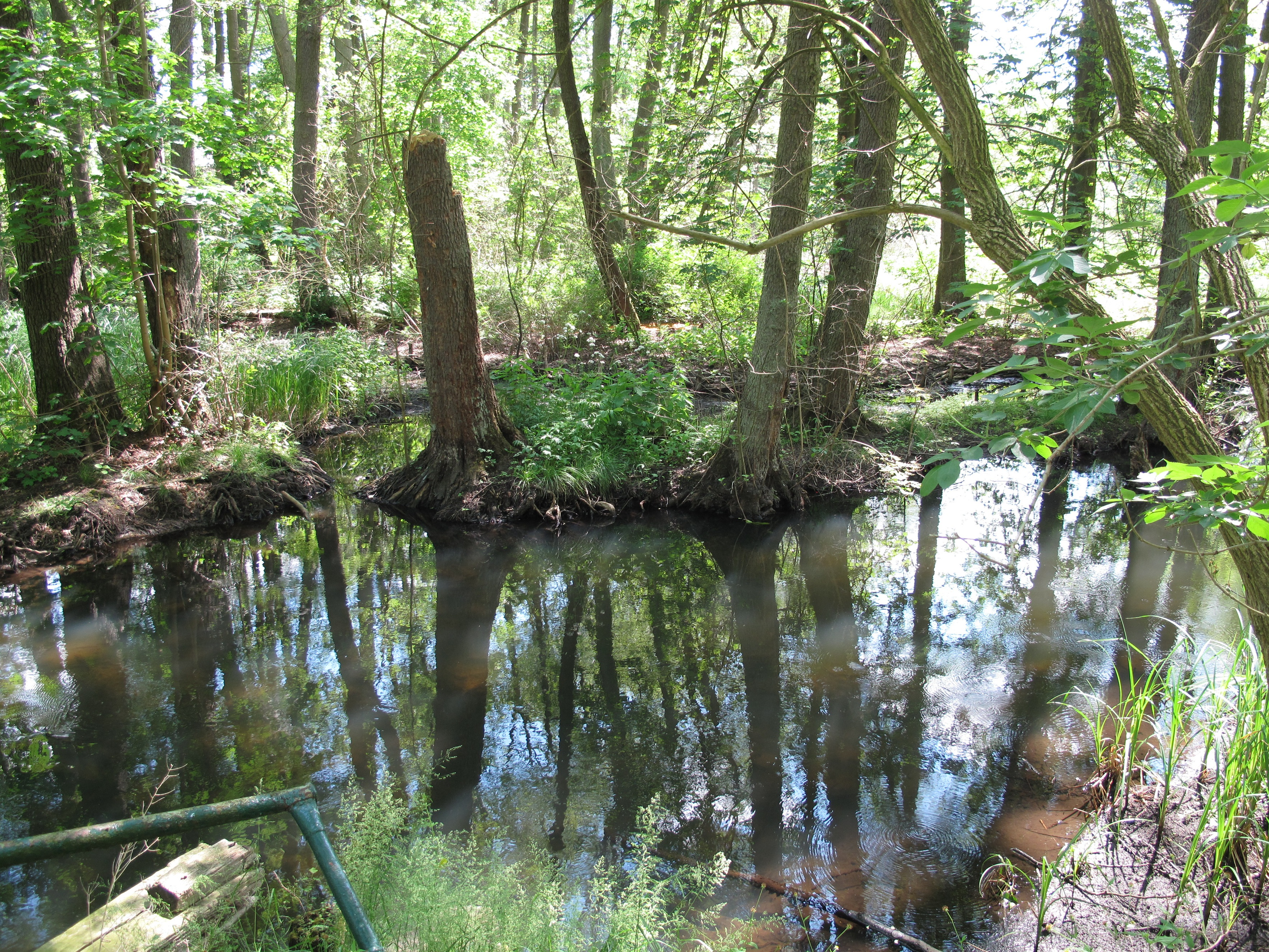 River Löcknitz in the Nature area Löcknitztal nearby Kienbaum. The village Kienbaum is a part of the municipality Grünheide, District Oder-Spree, Brandenburg, Germany. The village had in 2011 approximately 300 inhabitants.